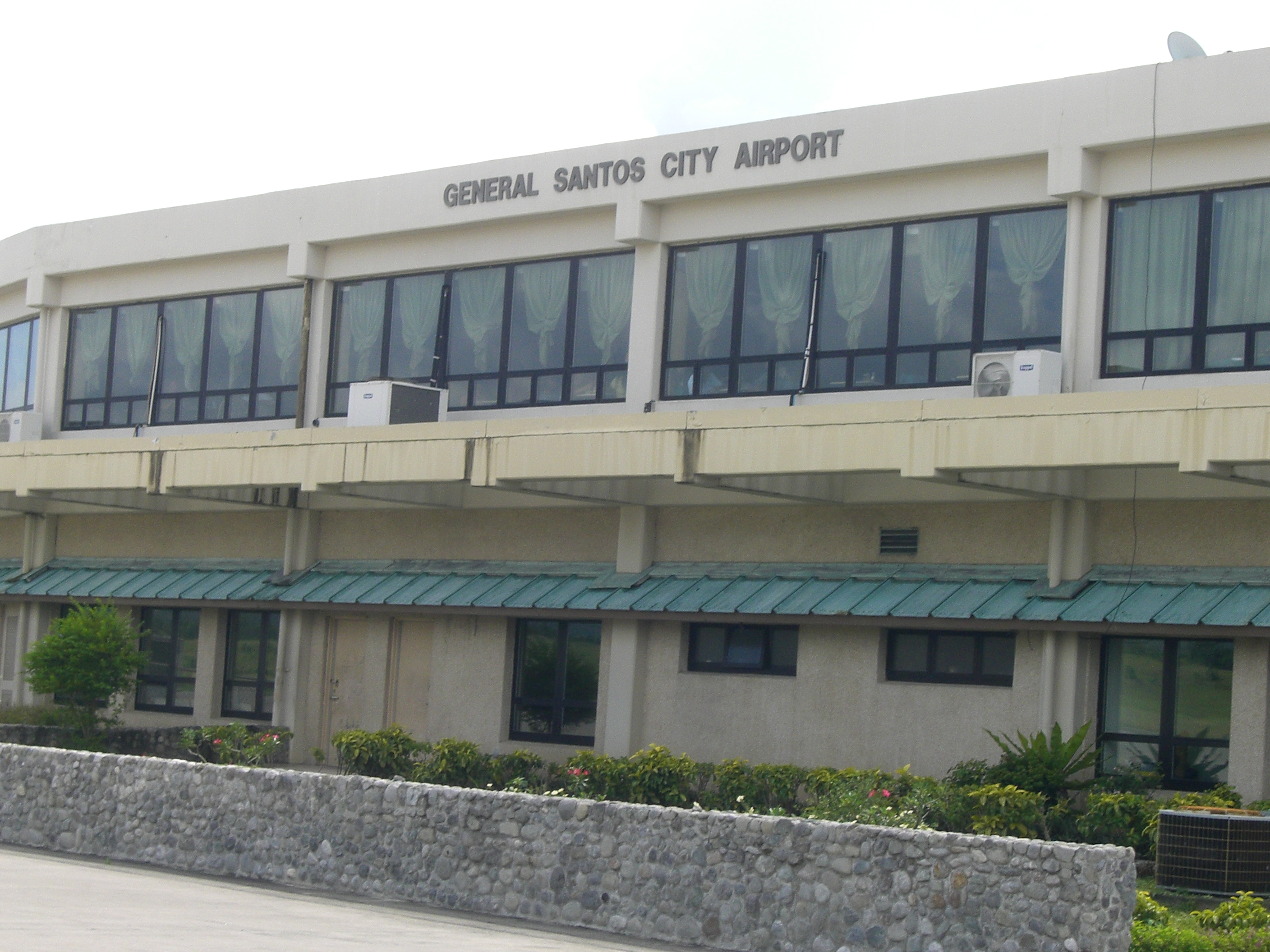 General Santos International Airport, taken on my flight from General Santos to Manila